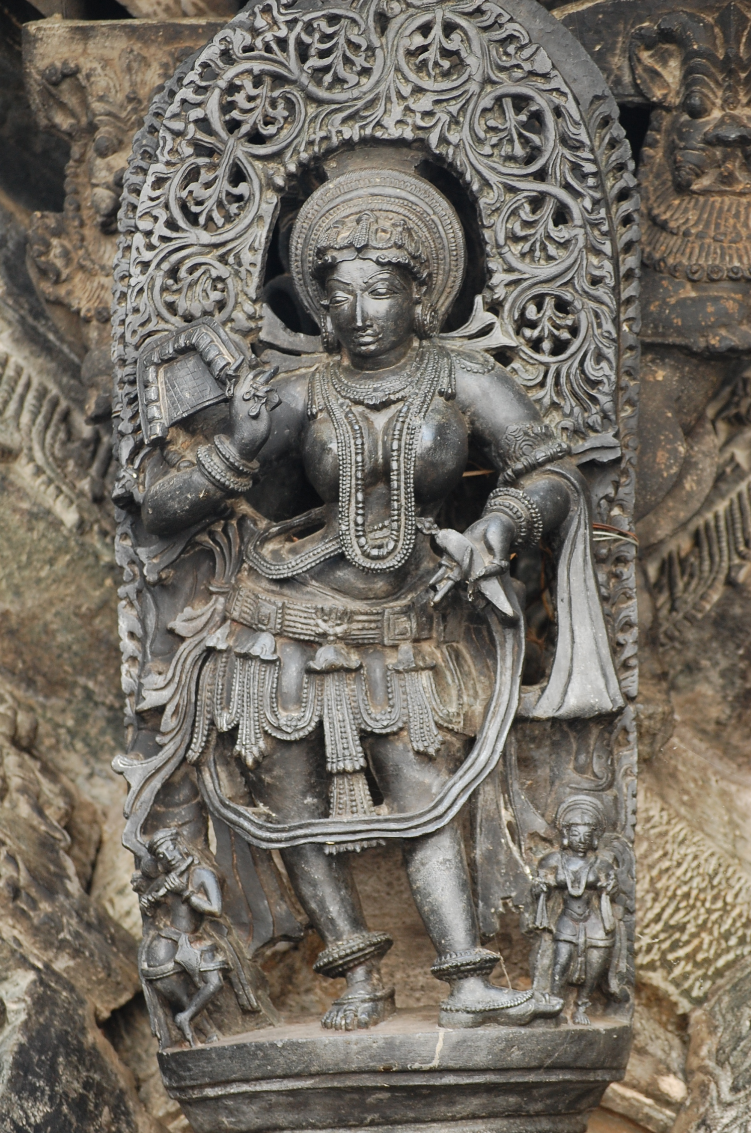 shilabalika 4